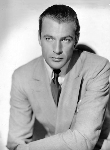 Gary Cooper publicity photo for the film Morocco, 1936